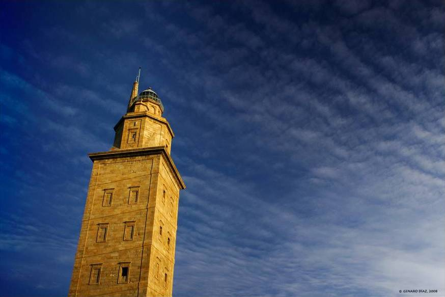 Lighthouse Torre de Hercules , A Coruña , Spain